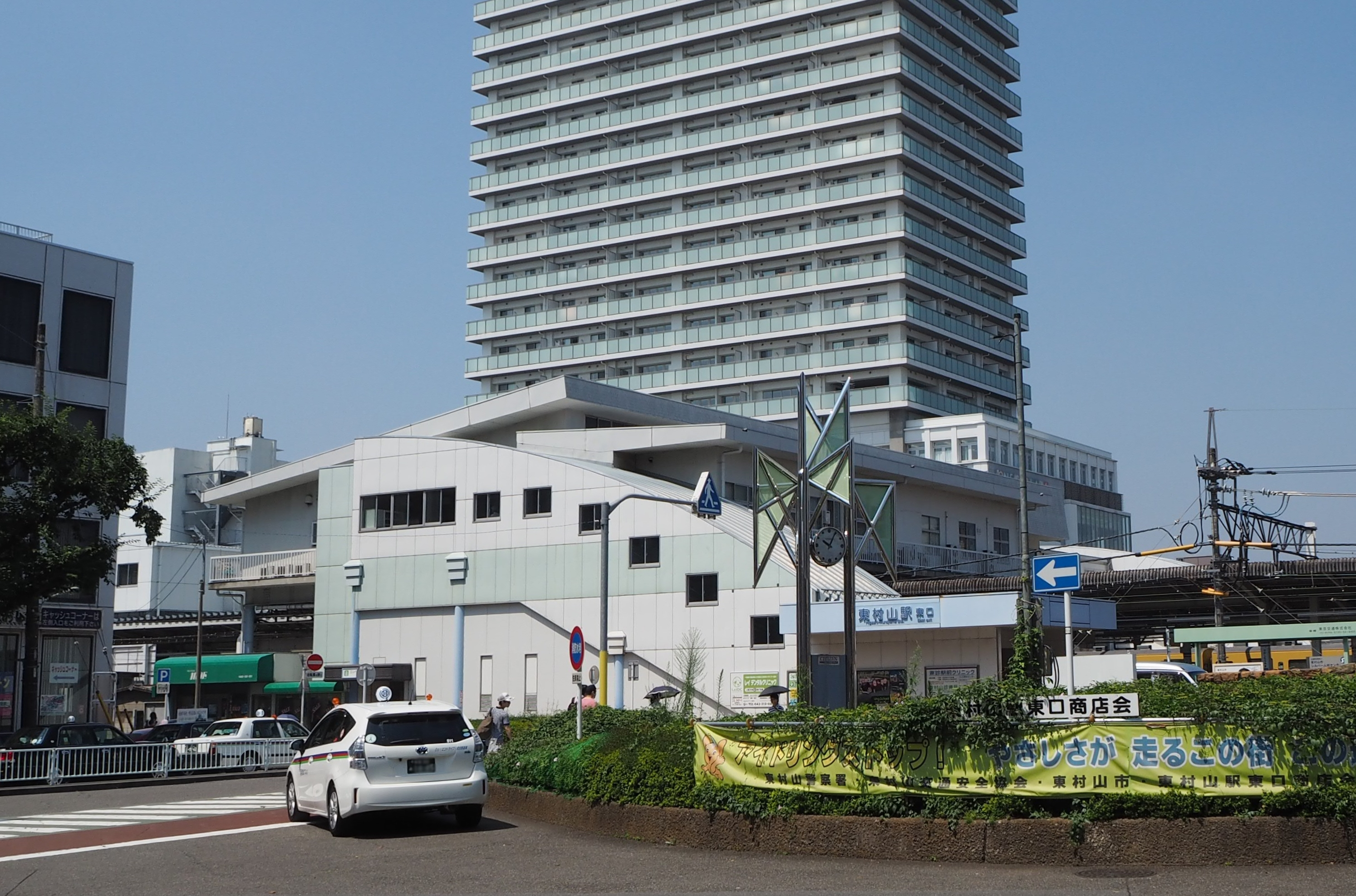 East entrance of Higashi-Murayama Station on the Seibu Shinjuku Line